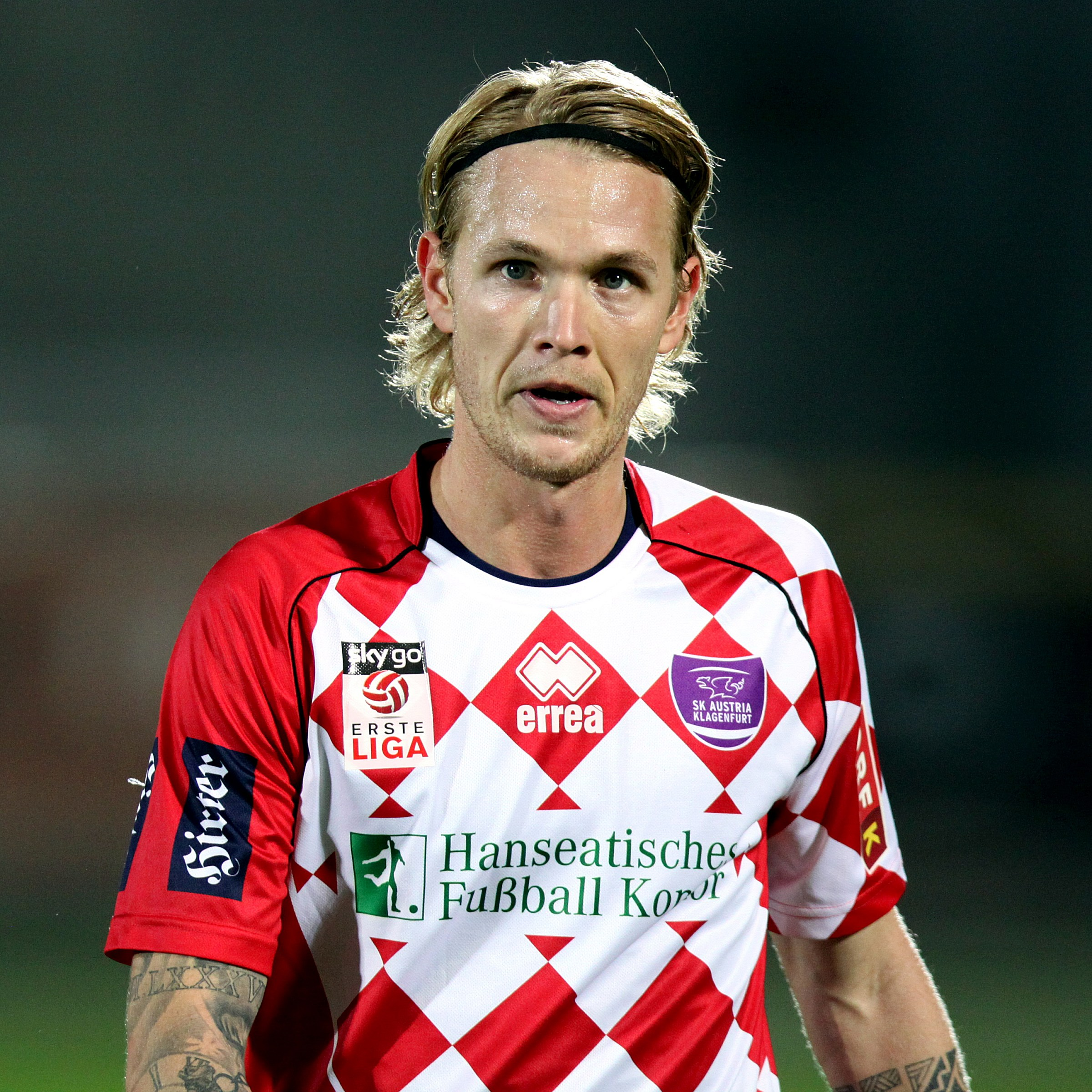 Match of the Erste Liga – SC Wiener Neustadt (blue/white shirts) vs. SK Austria Klagenfurt (red/white shirts) 1–1 (0-1) on 2015-10-20 in the Stadion in Wiener Neustadt – The photo shows Dominic Pürcher (SK Austria Klagenfurt).